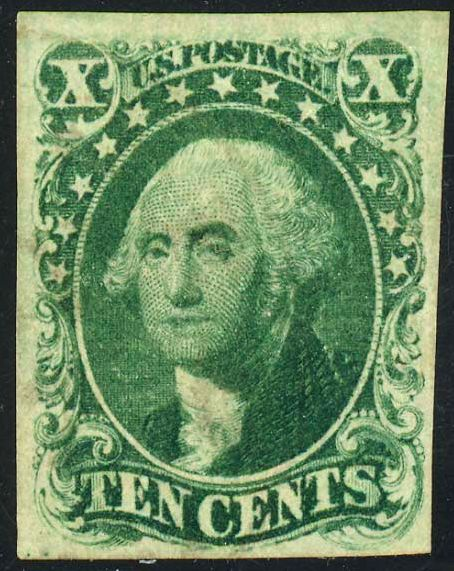 US Postage stamp, George Washington, 1851 Issue, 10c, green